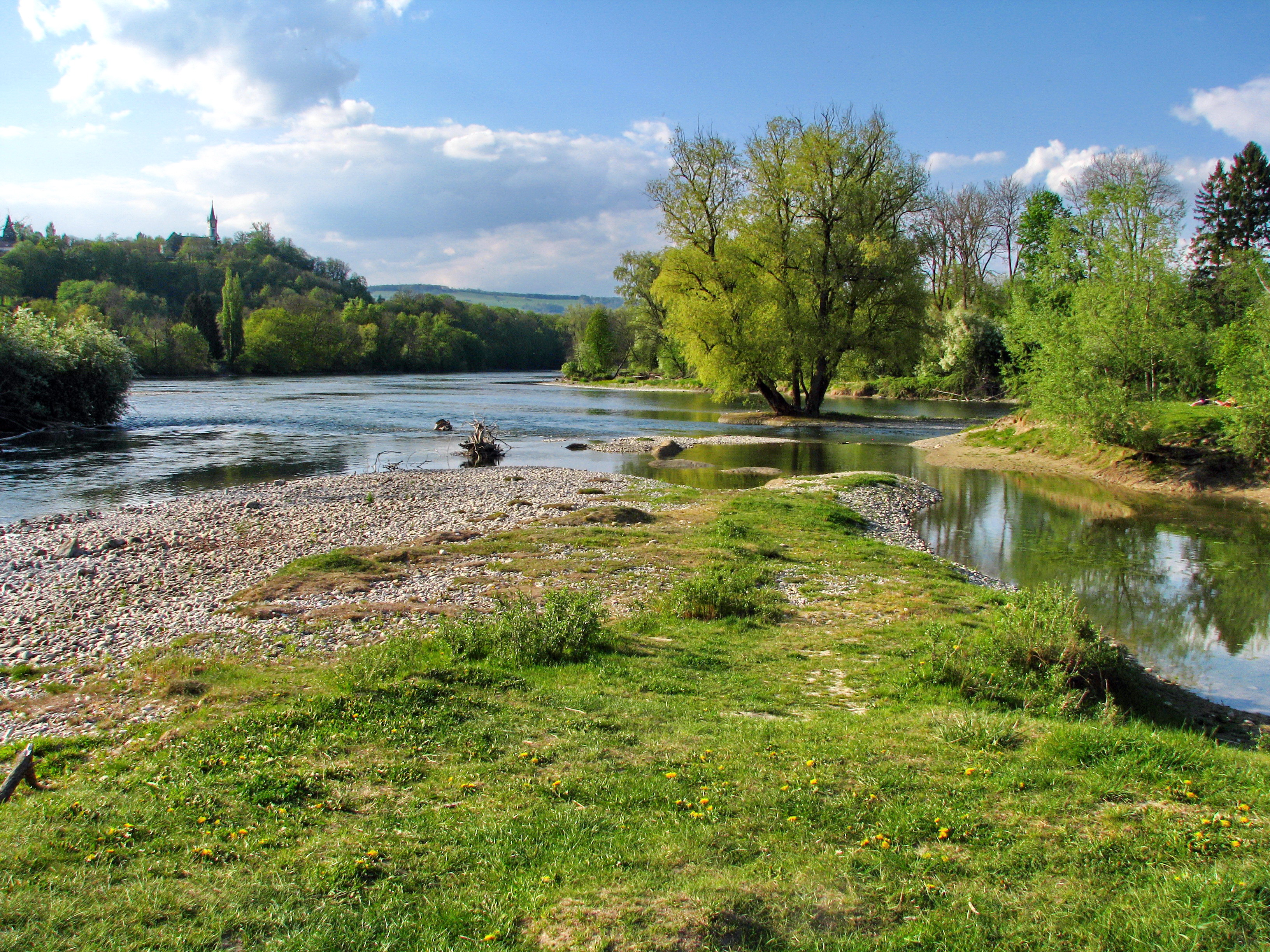 Limmatspitz protected area in Vogelsang (Gebenstorf): confluence of the rivers Aare (to the left) and Limmat within the so-called Wasserschloss.